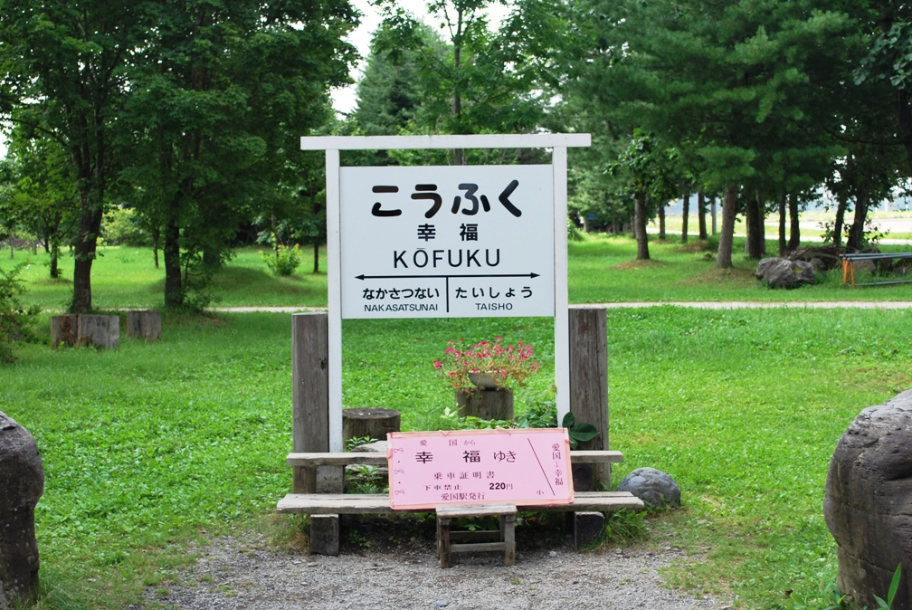 Koufuku-station mark in abolished Hiroo line in japan